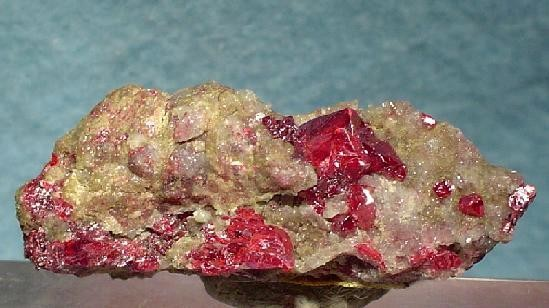 Cinnabar Locality: Almadén, Almadén District, Ciudad Real, Castile-La Mancha, Spain (Locality at ) Size: 4.0 x 1.5 x 1.5 cm. Gemmy and lustrous, deep cherry-red cinnabar crystals are aesthetically scattered on matrix on this excellent old-timer from the famous mercury mines of Almaden, Spain. The well-placed, complex crystal cluster is 1.0 cm wide. Ex. John Ydren Collection.